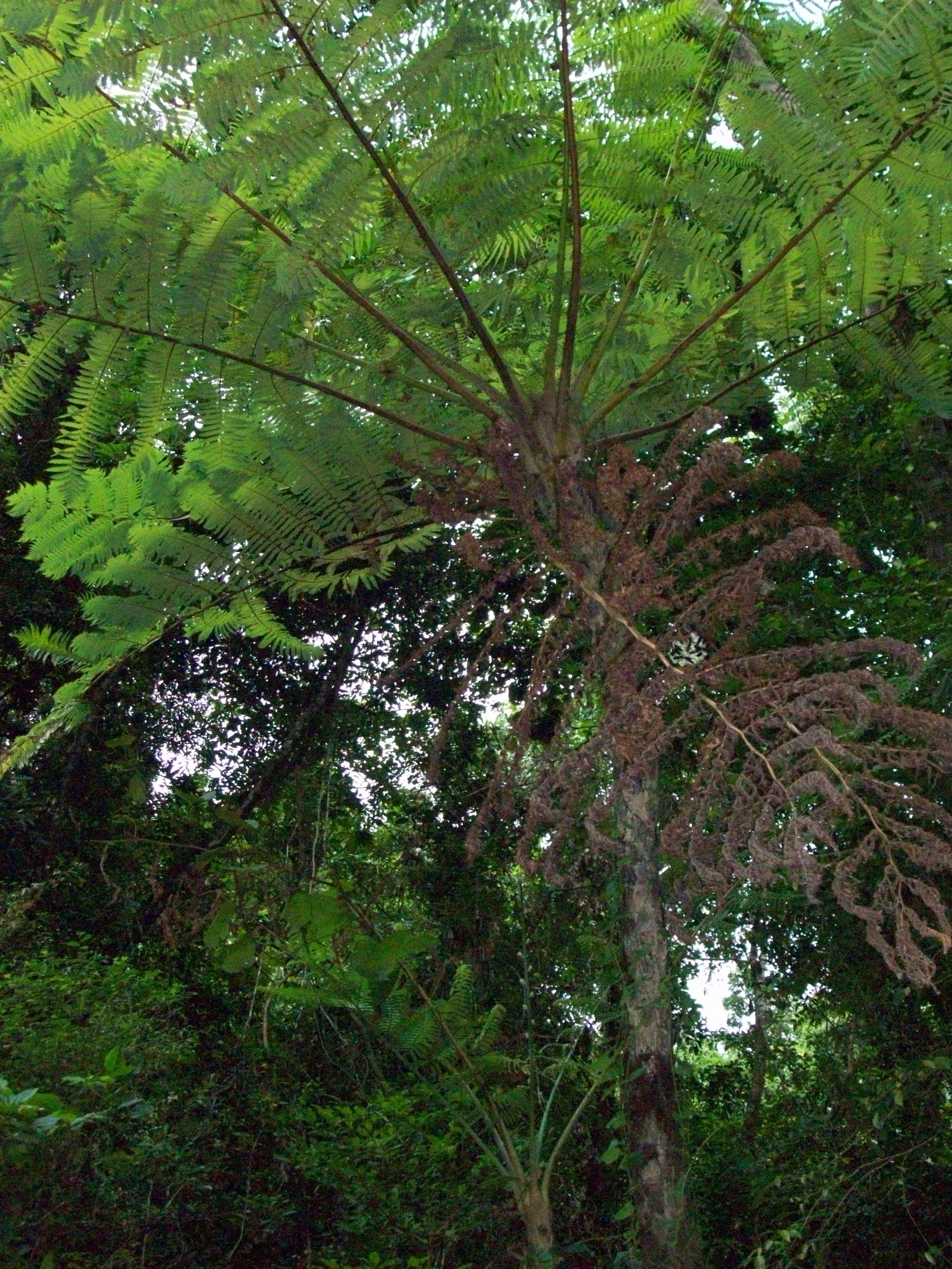 Giant ferns of Bulusan found in the national park, the most common vegetation in the forest.